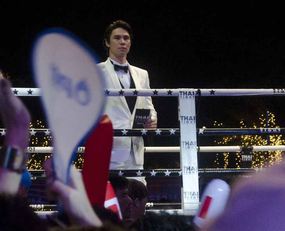 Mathew Dean Chantawanich